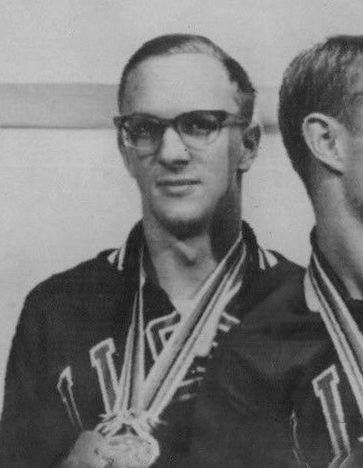 LG18 1964 Wire Photo CLARK SCHMIDT CRAIG MANN US Swimmers OLYMPIC GOLD Medal